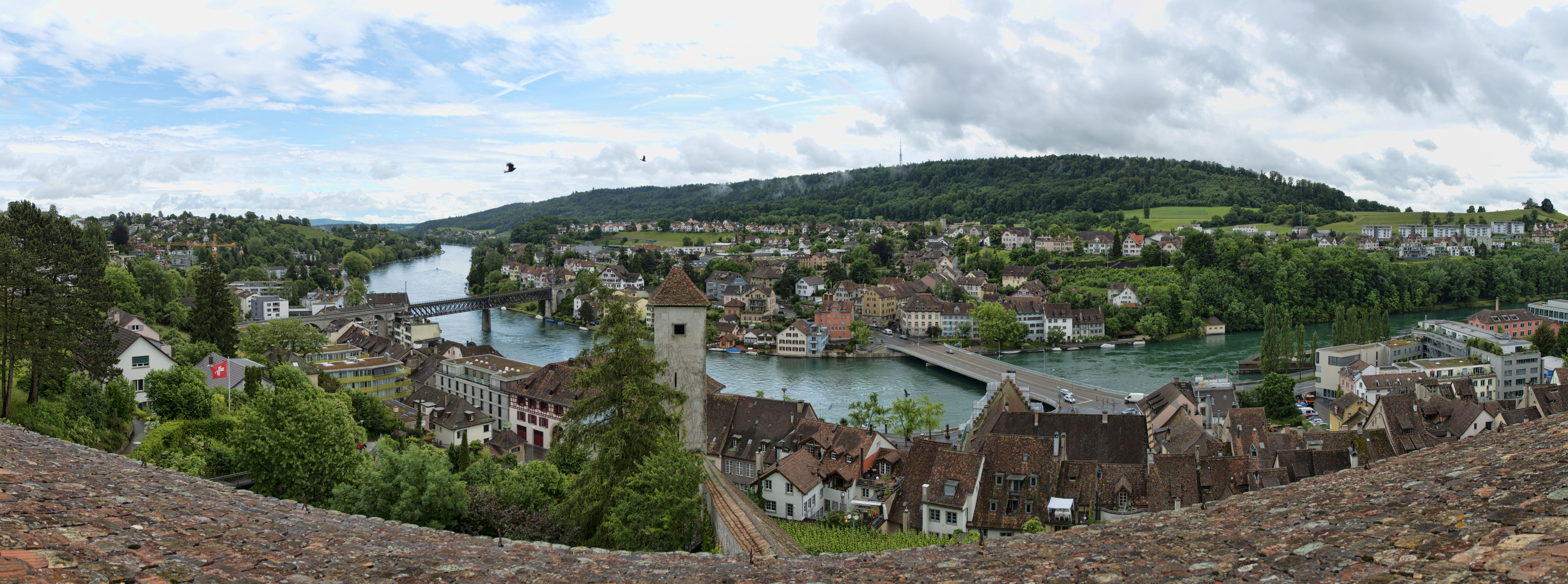 view from munot fortress castle schaffhausen switzerland 2012 rhein